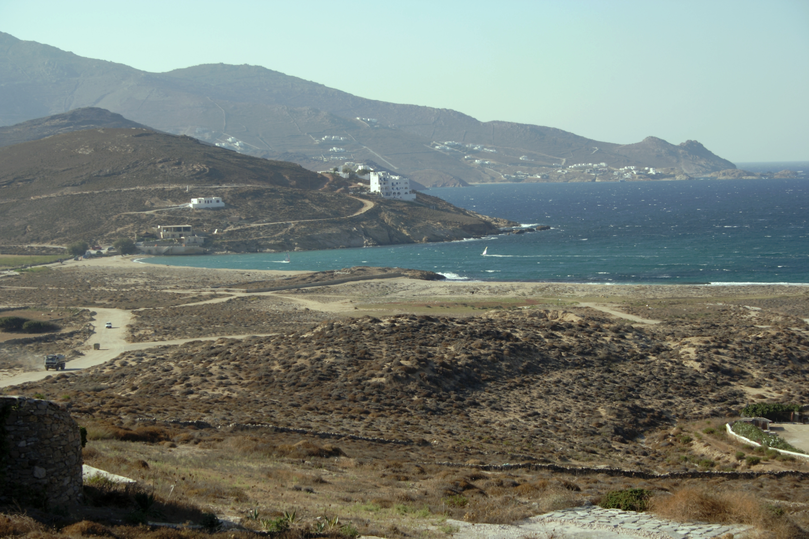 Záliv Ftelia na Mykonu s žalostnými zbytky starokykladského sídla z rané doby bronzové.